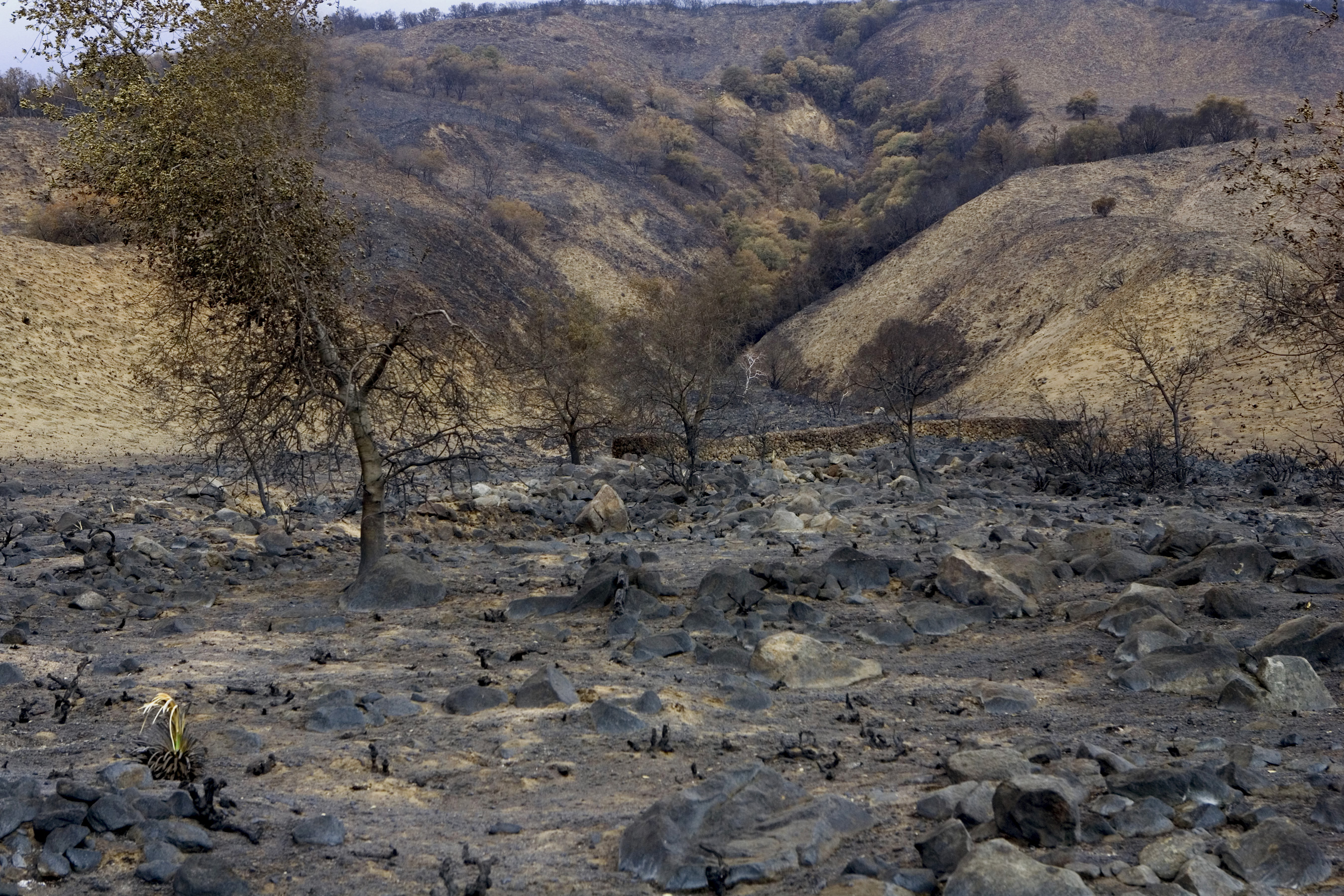 Pauma, CA, November 10, 2007-- La Jolla Indian Reservation, Landscape shows a wall built in the first half of the 20th century by the La Jolla tribe to prevent erosion and flooding from washing away their burial grounds. It will work in cooperation with the plan by FEMA, BAER (Burned Area Emergency Response) and the Multi Agency Support Group (MASG) to evaluate, prevent and mitigate further damage and erosion by the winter rains to the areas ravaged by the Southern California wildfires. 92% of the La Jolla Reservation was damaged by the fire. Susie Shapira/FEMA